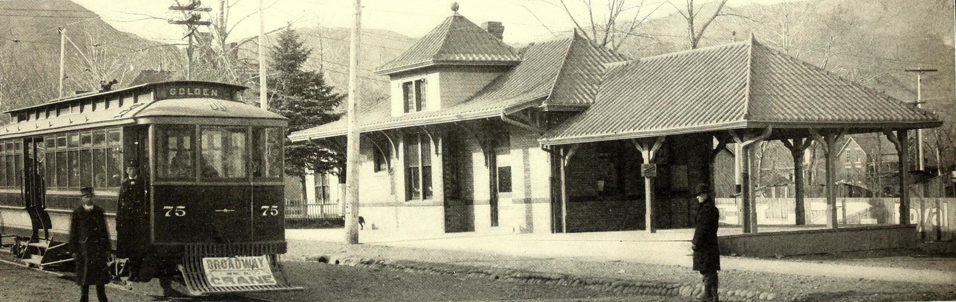 Title: Electric railway journal Year: 1908 (1900s) Authors: Subjects: Electric railroads Publisher: (New York) McGraw Hill Pub. Co Text Appearing Before Image: Denver City Tramway—Interior 1909 Type Motor Car Denver City Tramway—Concrete Mixing Car Plate X Text Appearing After Image: Plate XI